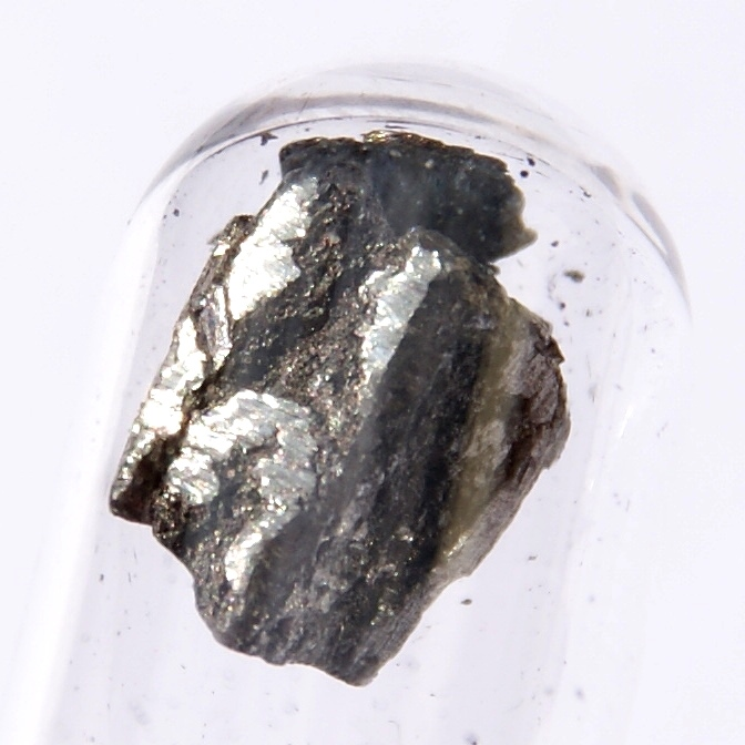 1 cm big piece of pure lanthanum.